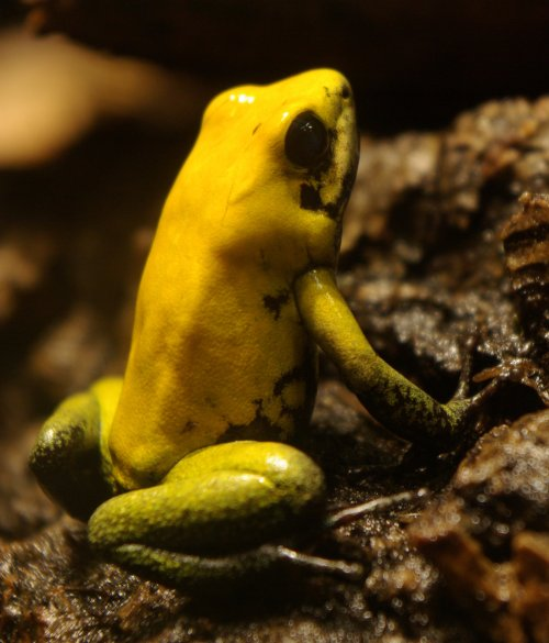 Phyllobates bicolor, 2008 frog exhibit at National Geographic Museum, Washington, DC